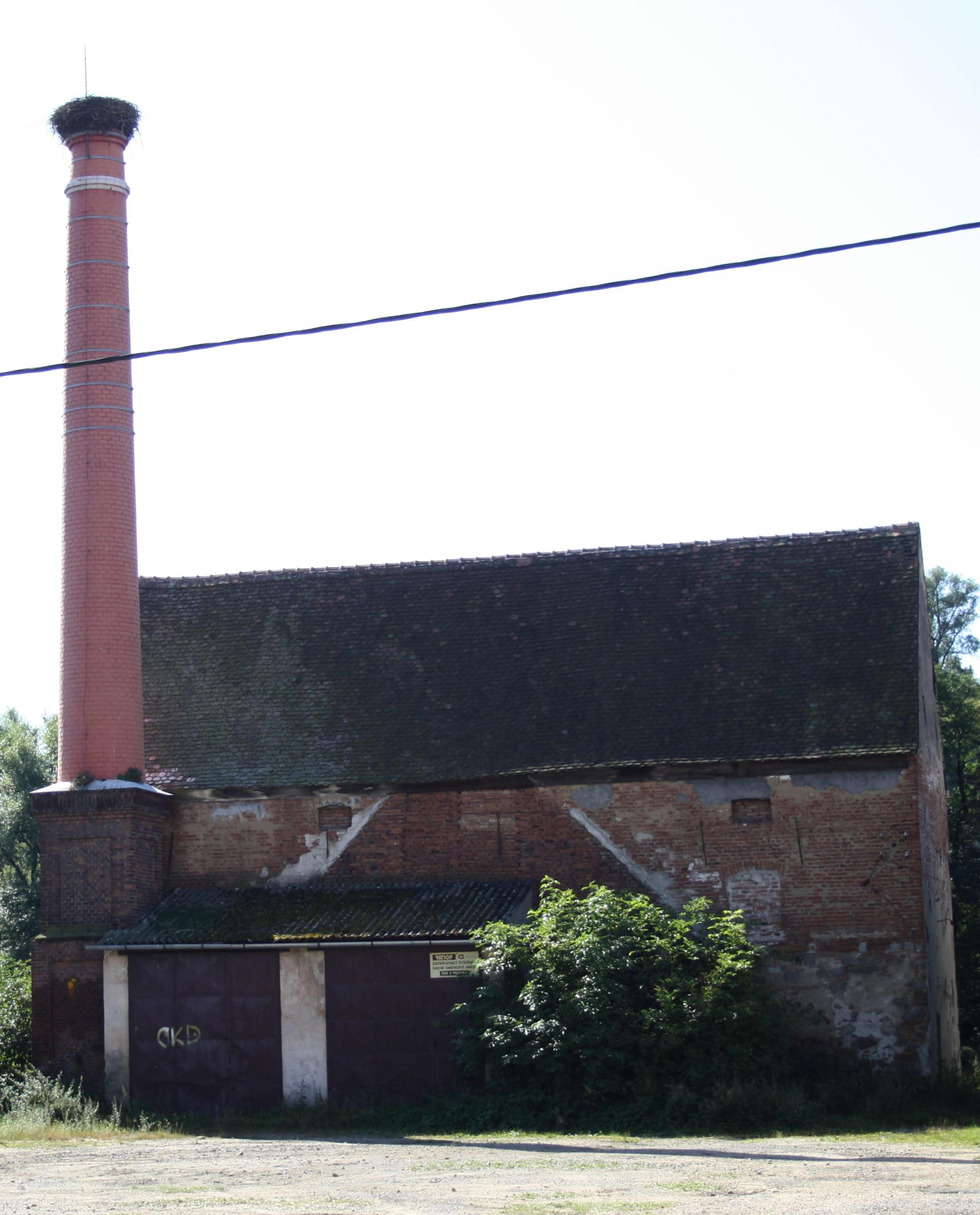 Brewery building in Vladislav, Czech Republic.